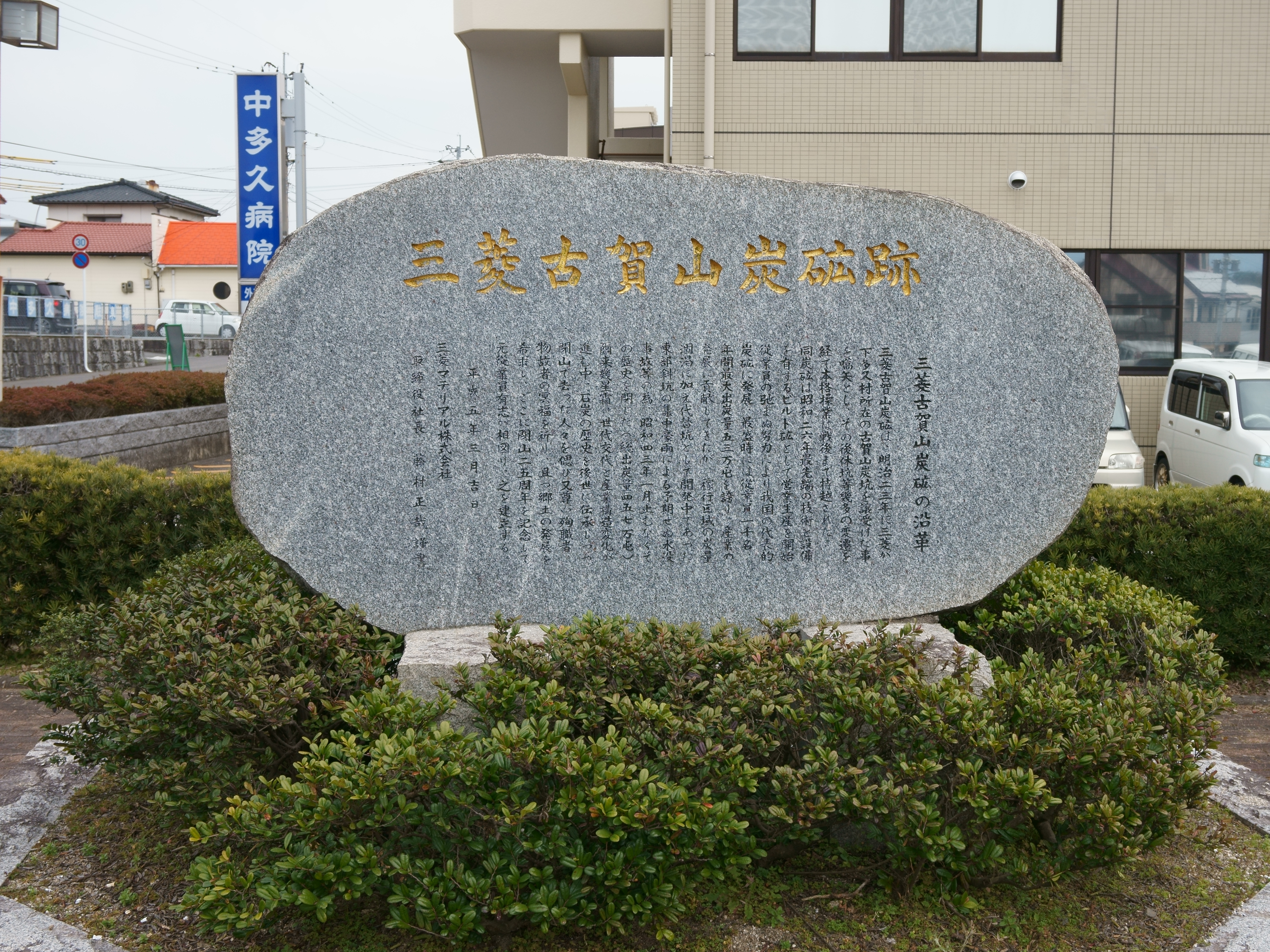 A monument of former Mitsubishi Kogayama Coal Mine(until 1968), in Nakataku, Taku city, Saga prefecture, Japan.